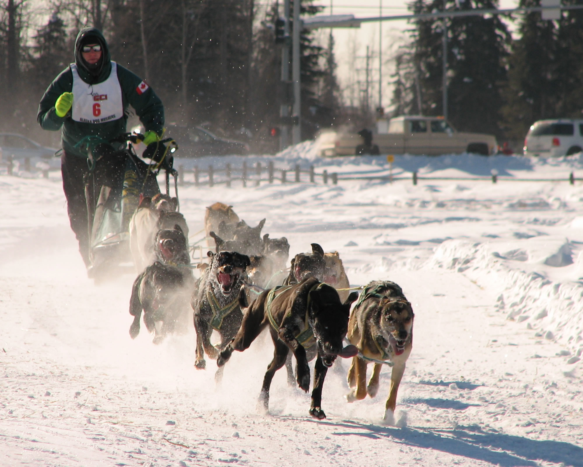 Dogsled racing in Alaska.